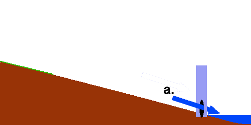 Reclamation works - 03